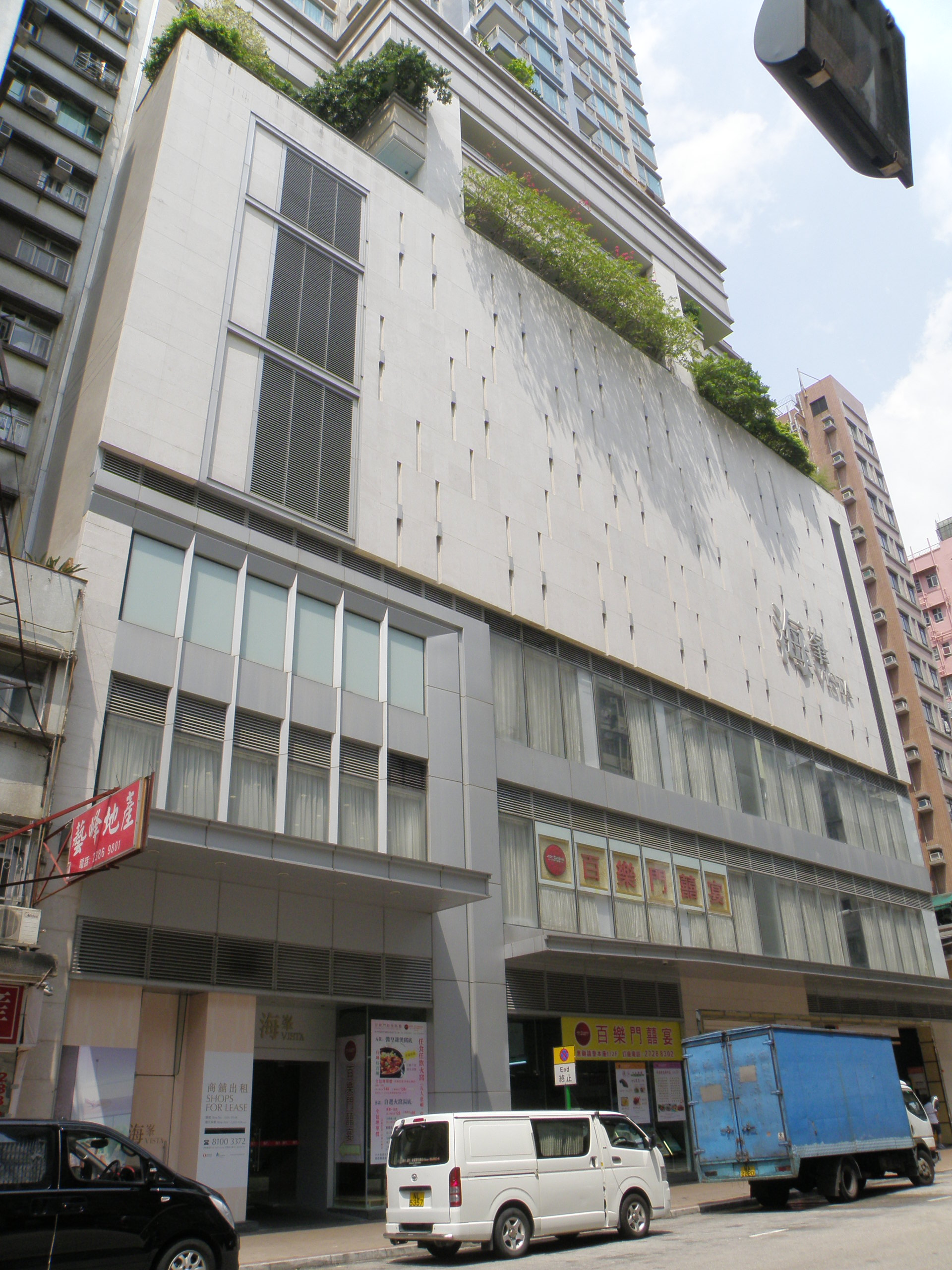 VISTA in Sham Shui Po, Hong Kong.